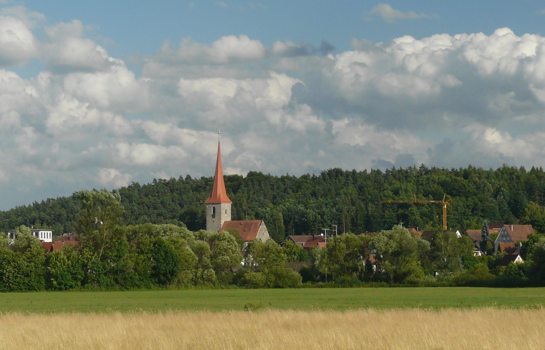 The village Ottensoos in Middle Franconia, Bavaria, Germany.